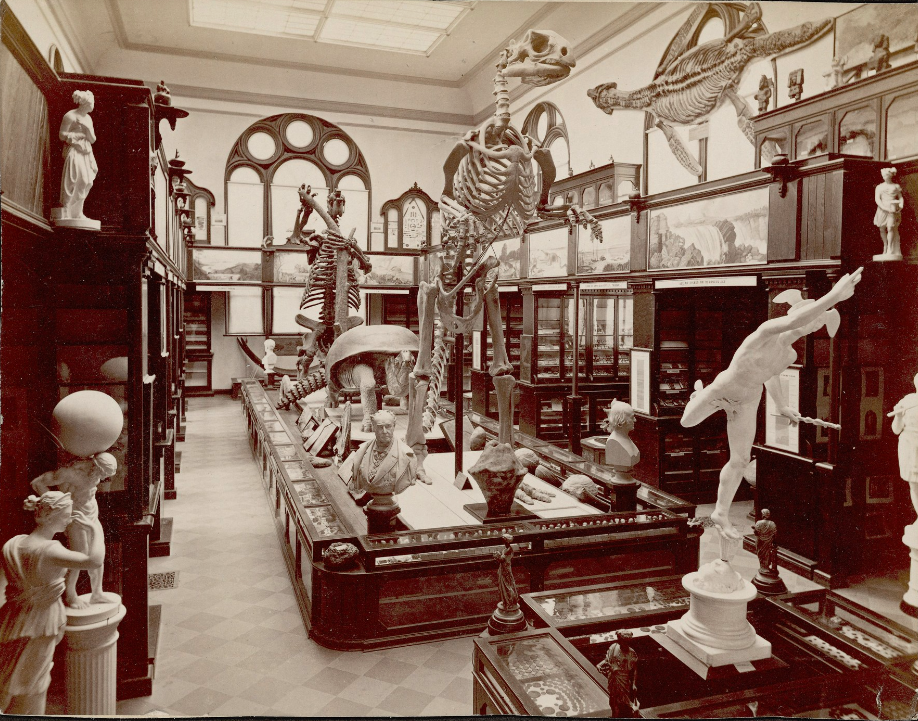 The Faculty Room of Nassau Hall at Princeton University in 1886 during its time as a museum space. Princeton University Library. Department of Rare Books and Special Collections. Seeley G. Mudd Manuscript Library.. Box MP42, Item 1256